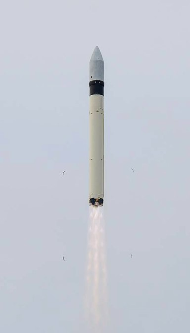 The "Rokot" light class space-mission rocket with the "Gonets-M” block of space equipment launch (Plesetsk State Test spaceport, Arkhangelsk region)